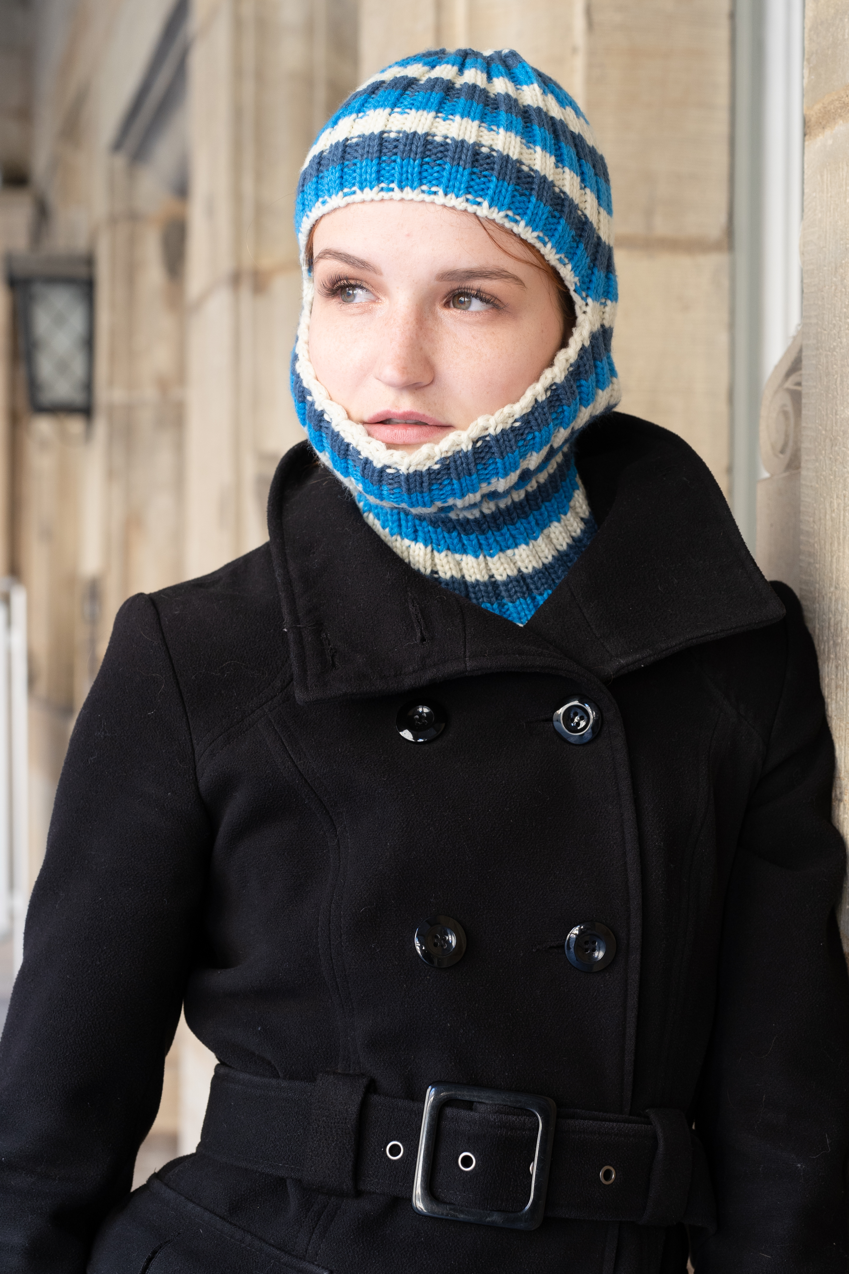 Balaclava as suggested fashion piece for winter 2018/2019. Shown is one of the two basic ways to wear it, covering the whole head and neck. Showing only the framed face. The hair peaking out is not unwanted. As she is not a motorcyclist and hair obstructing her sight can easily removed. Personal note: After some weeks revisiting this picture, I noticed the Balaclava already obscured her identity significantly by covering her very distinctive jaw line.